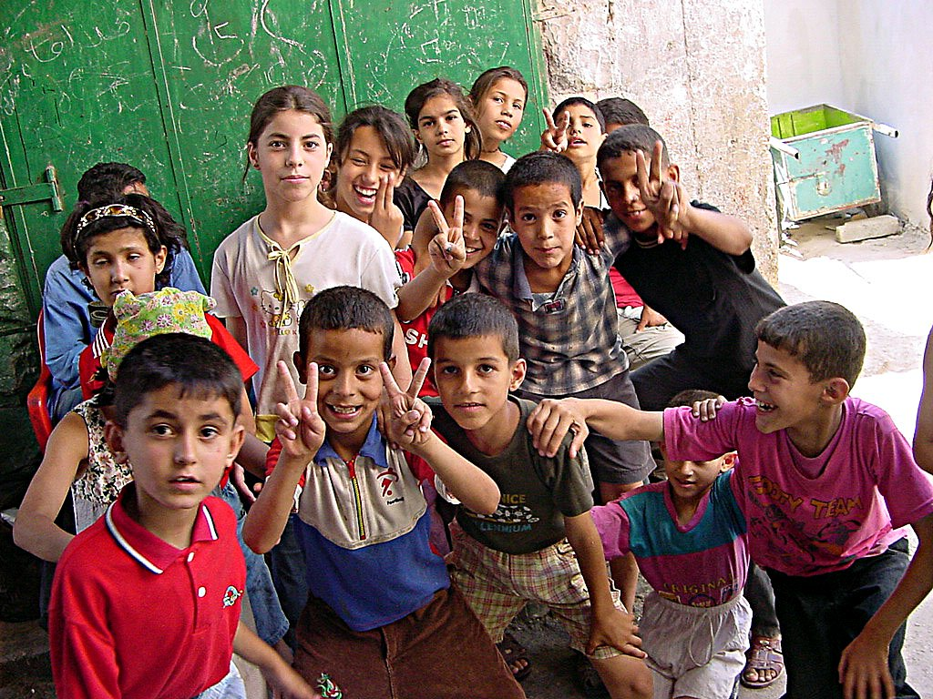 Palestinian children in Jenin, a city on the West Bank.